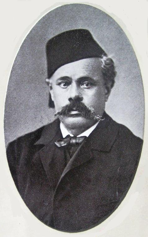 Pjetër Marubi, the Father of Albanian Photography.